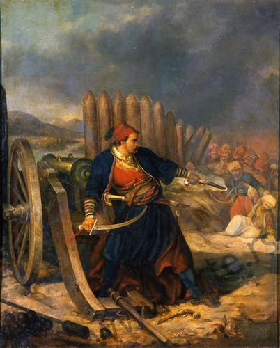 Oil on canvas Painting by Rihard Puhta, 1862, see this